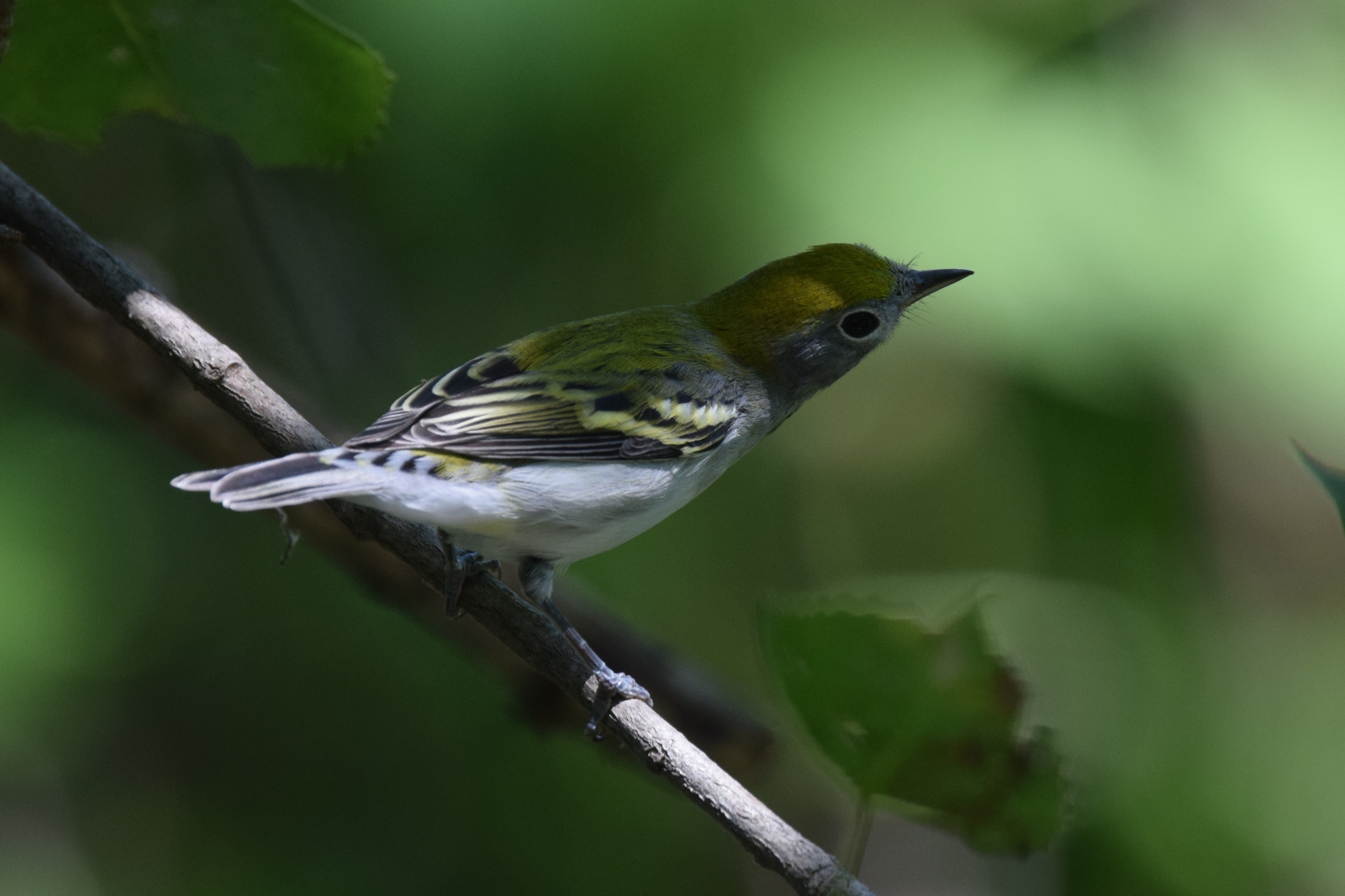 Chestnut-sided Warbler